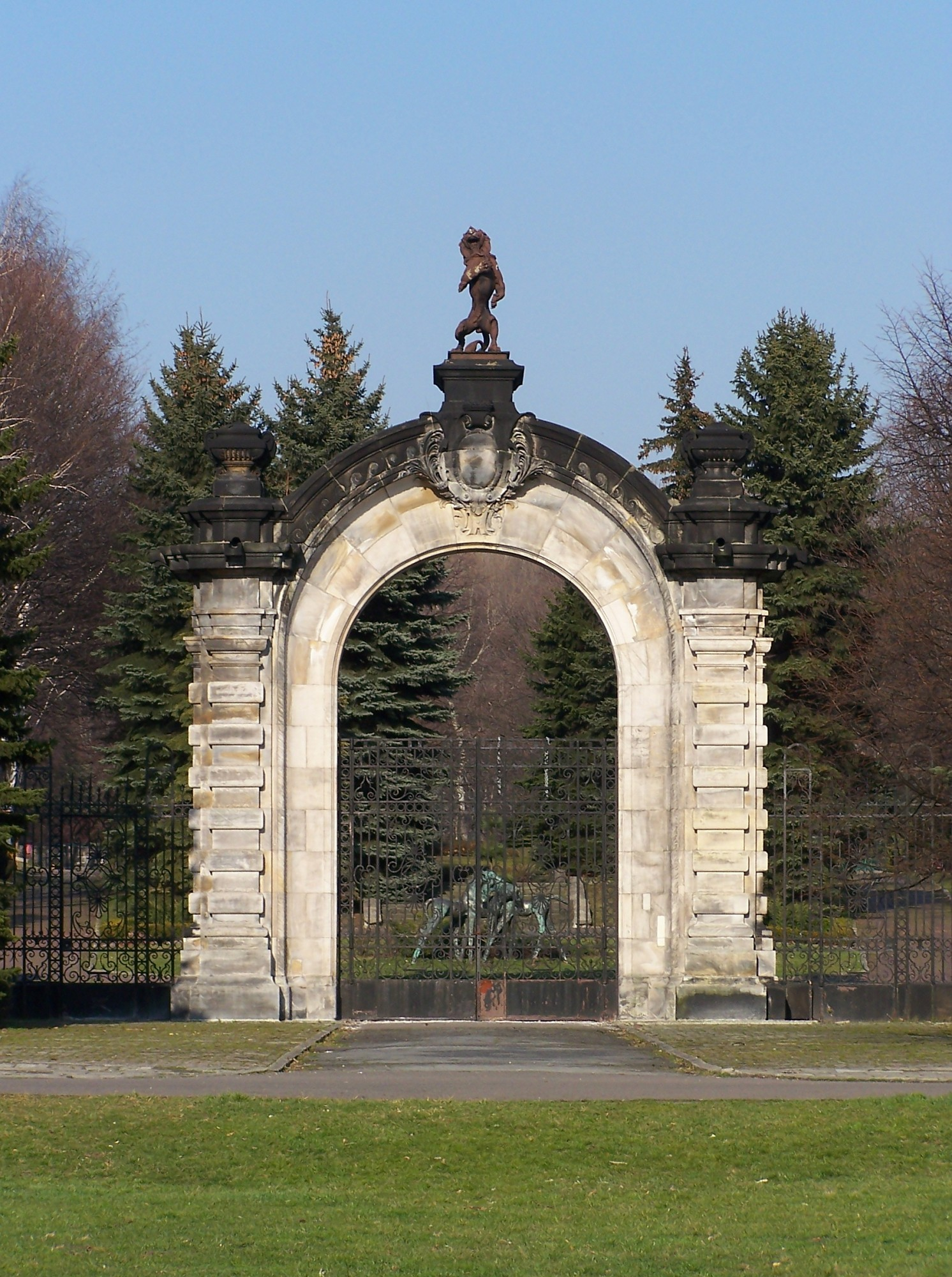 Gate to ZOO in WPKiW in Chorzów (Poland).